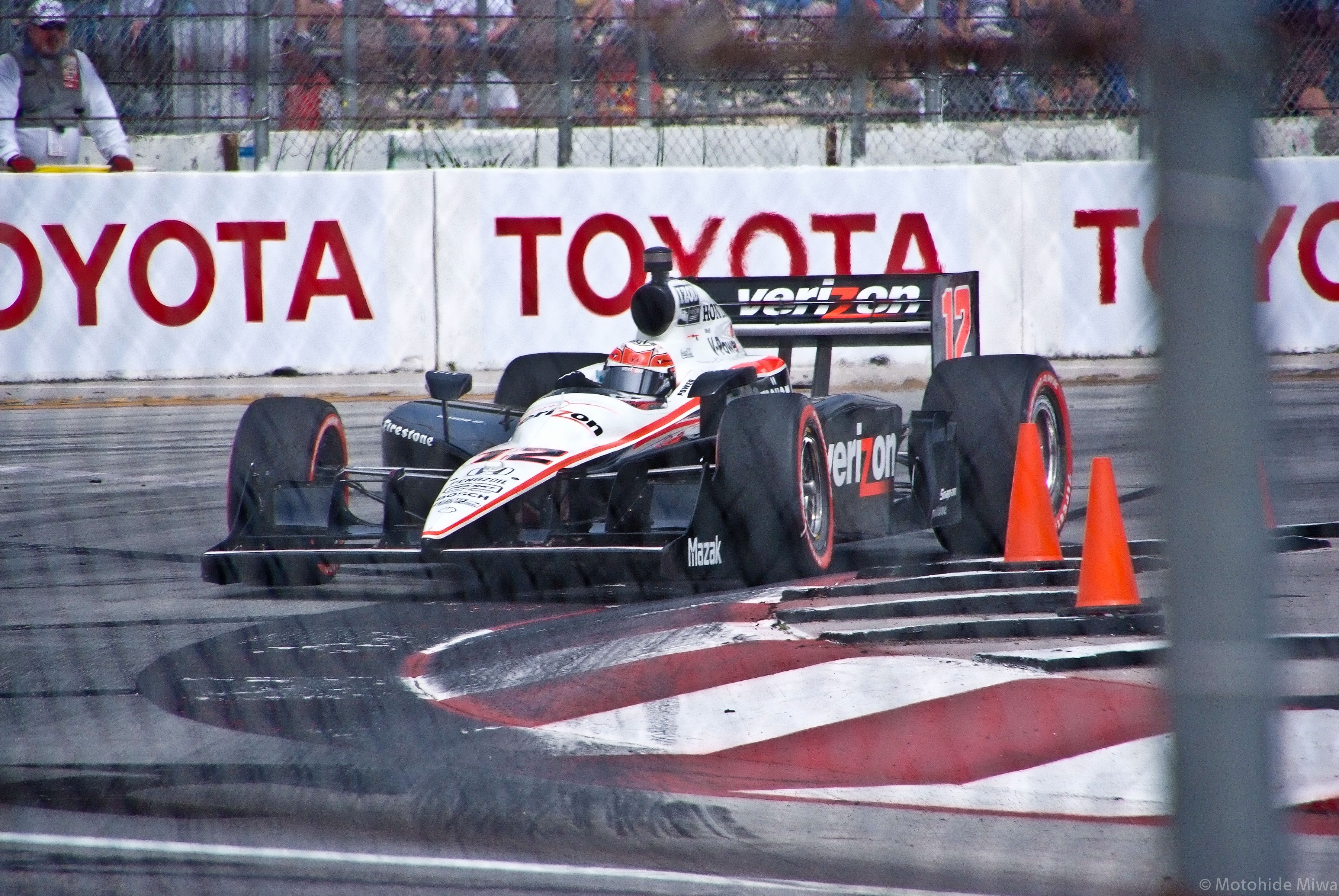 Will Power, Verizon Team Penske at the 2011 Grand Prix of Long Beach.